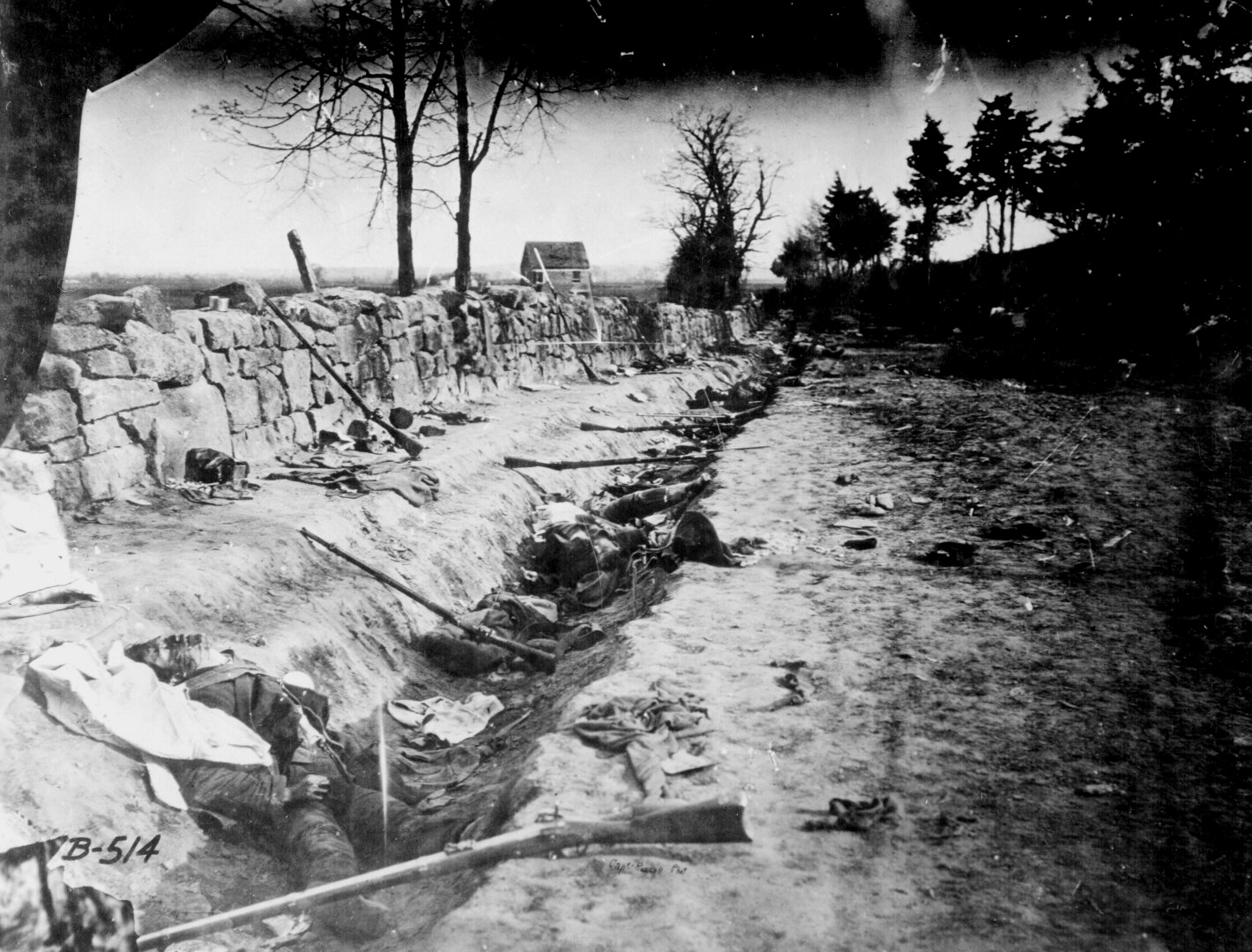 Confederate dead behind the stone wall of Marye's Heights, Fredericksburg, Va., killed during the Battle of Chancellorsville. Note: There were two battles at Marye's Heights. The first was the Battle of Fredericksburg in December 1862, the second was the eastern portion of the Battle of Chancellorsville, May 1863. According to the NARA caption for photo96, this photo is from the 1863 battle.